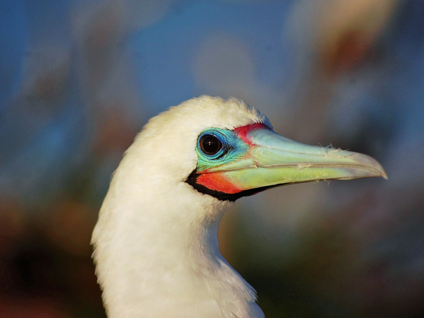 A close-up shot of a white Red-footed Booby (Sula sula) at the Tubbataha Reef National Park in the Philippines. Photographed in 2012 by Gregg Yan.